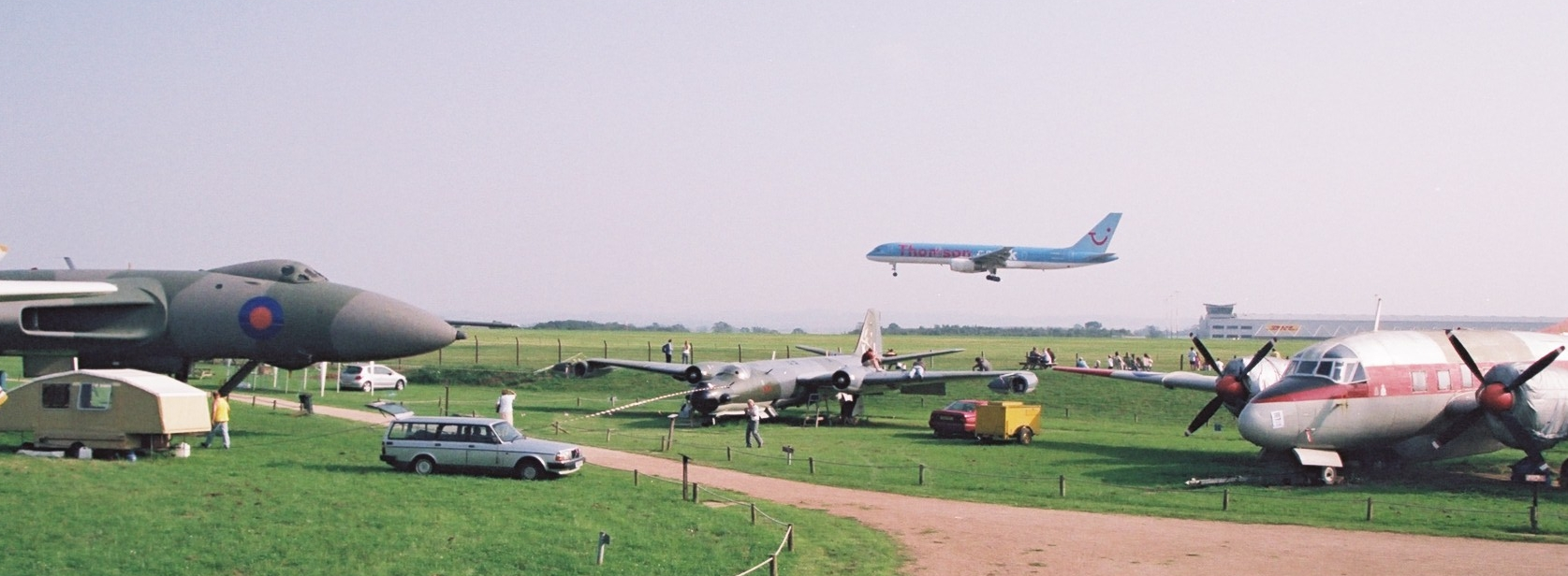 T.A.Fitchett Aeropark at Nottingham East Midlands Airport